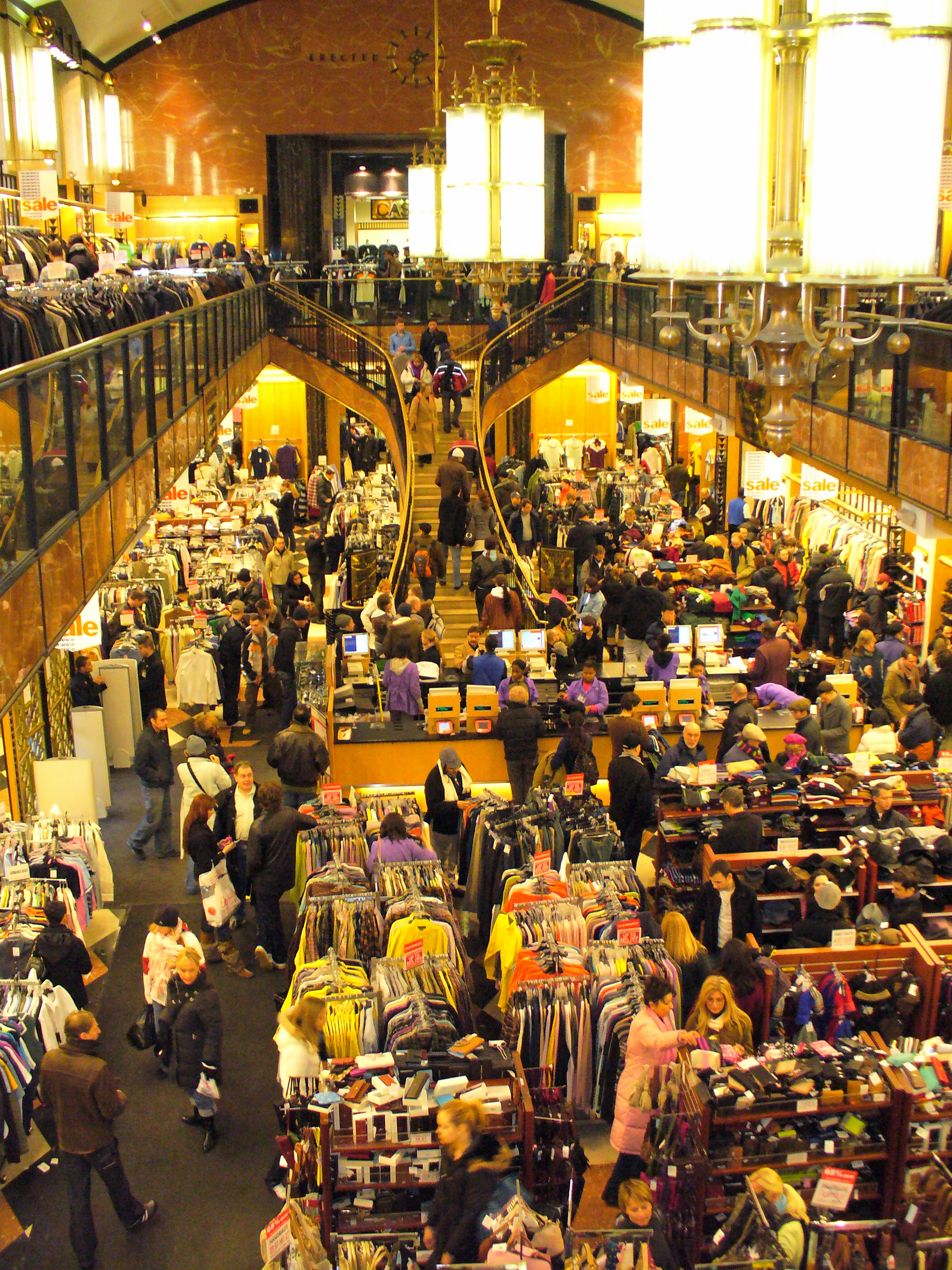 Century 21 Department Store New York by David Shankbone